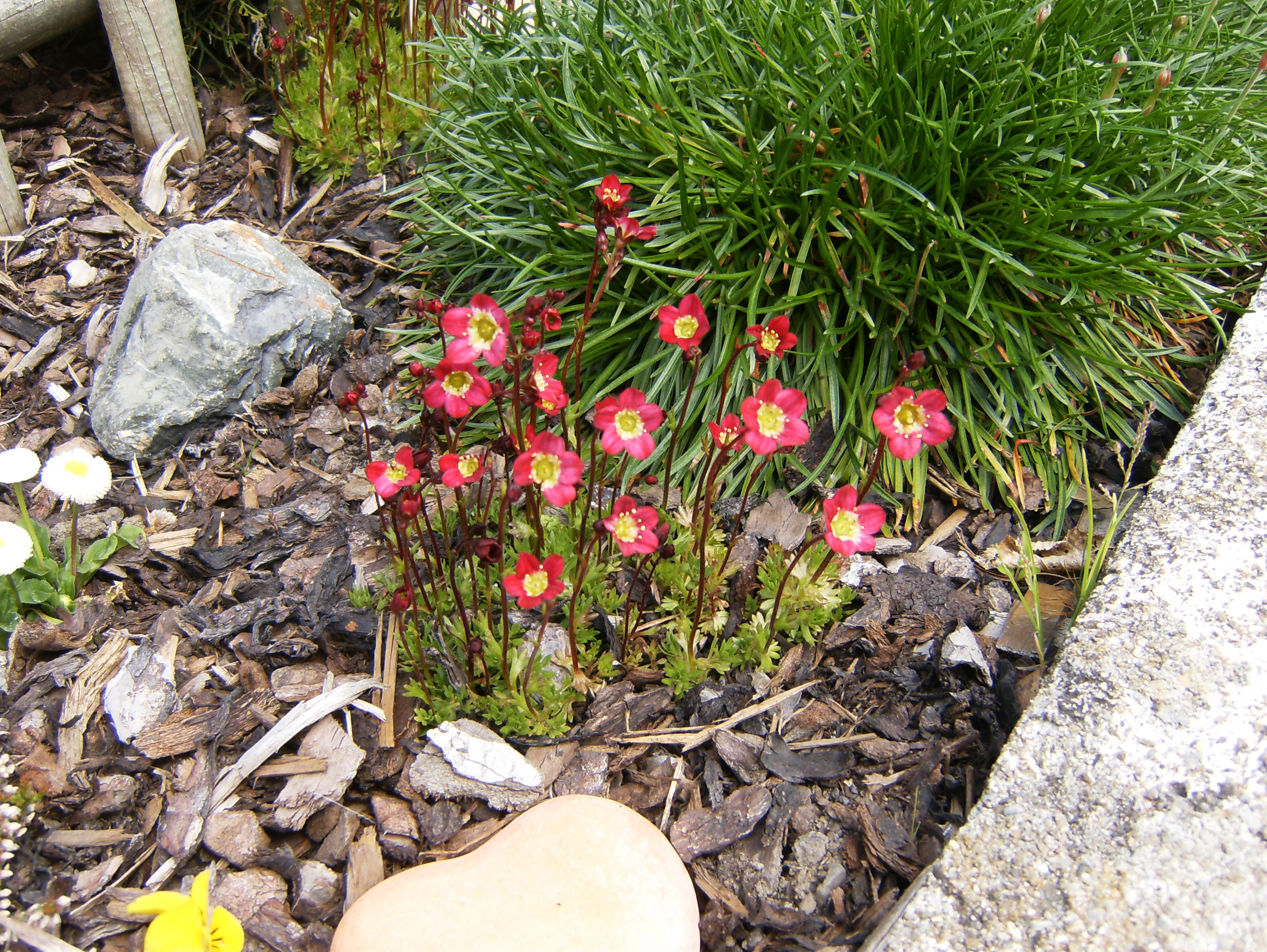 Einsiedeln SZ, Switzerland